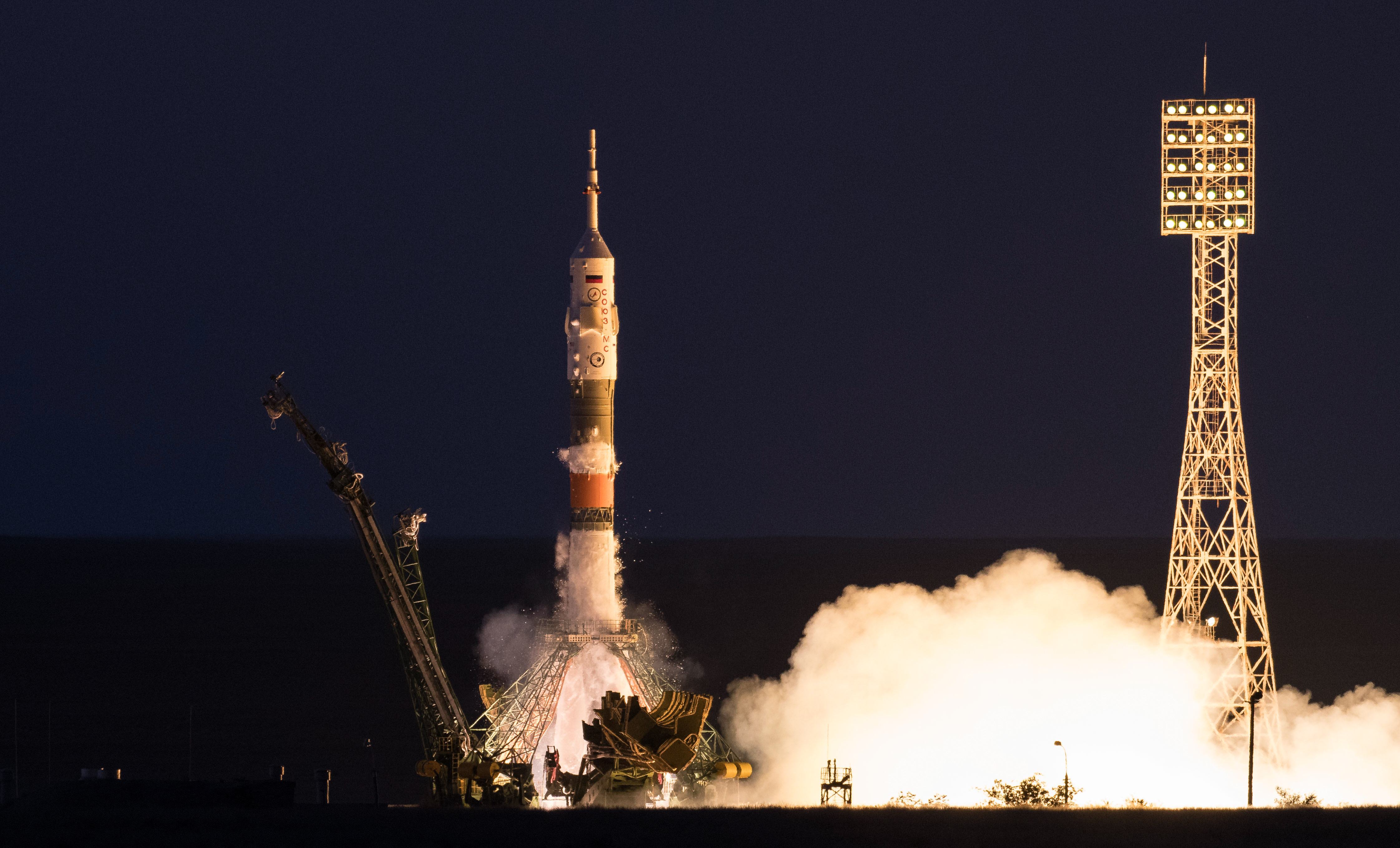 The Soyuz MS-05 rocket is launched with Expedition 52 flight engineer Sergei Ryazanskiy of Roscosmos, flight engineer Randy Bresnik of NASA, and flight engineer Paolo Nespoli of ESA (European Space Agency), Friday, July 28, 2017 at the Baikonur Cosmodrome in Kazakhstan. Ryazanskiy, Bresnik, and Nespoli will spend the next four and a half months living and working aboard the International Space Station.